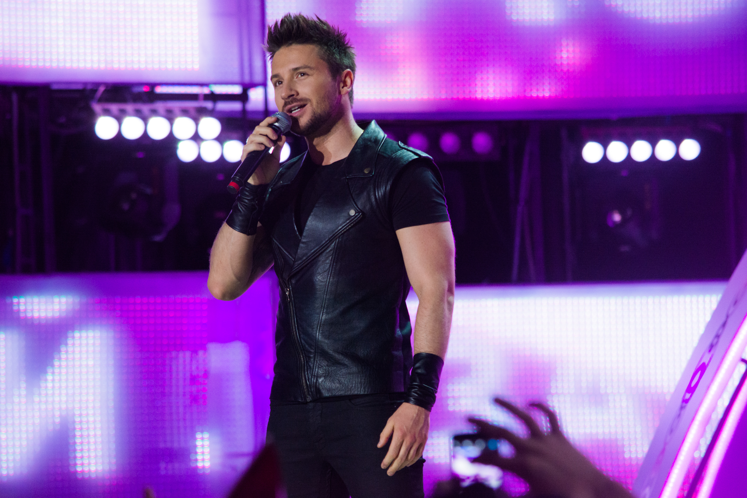 Sergey Lazarev at New Wave Junior 2015